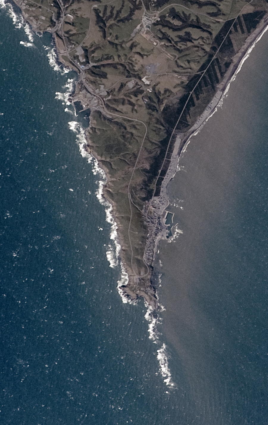 HOKKAIDO--ERIMOMISAKI, COAST, MTS, taken from the International Space Station on Oct. 11, 2009.